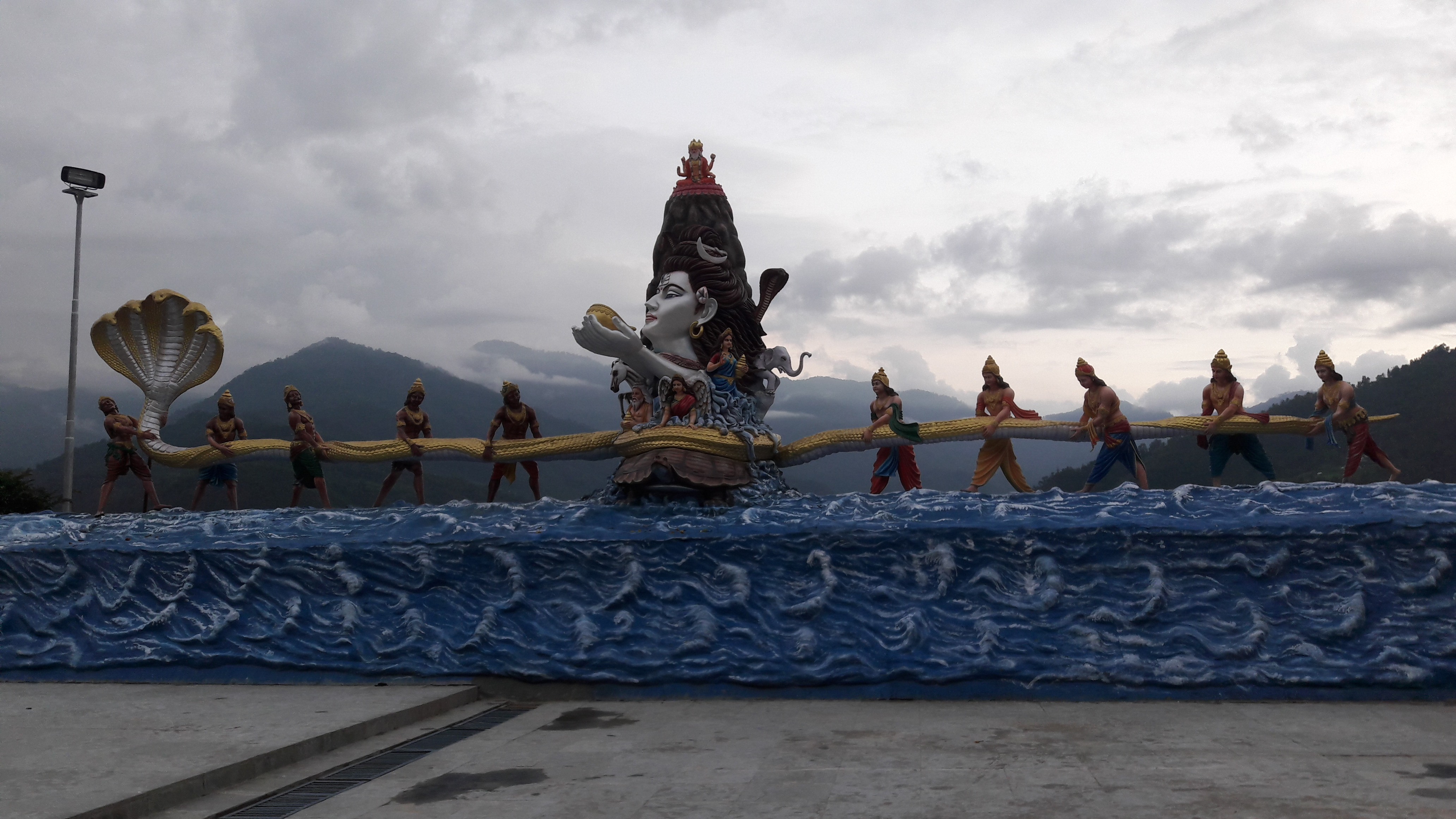 Rhenock Viswa Vinayak : Samudra Mathan Statues